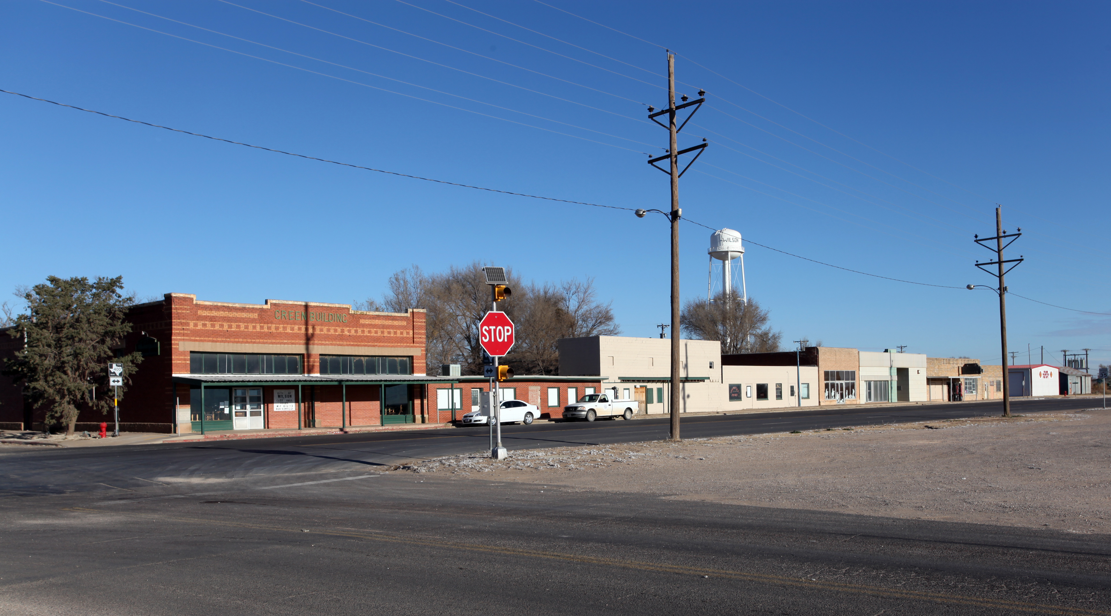 The Green Building and the rest of downtown Wilson, Texas.